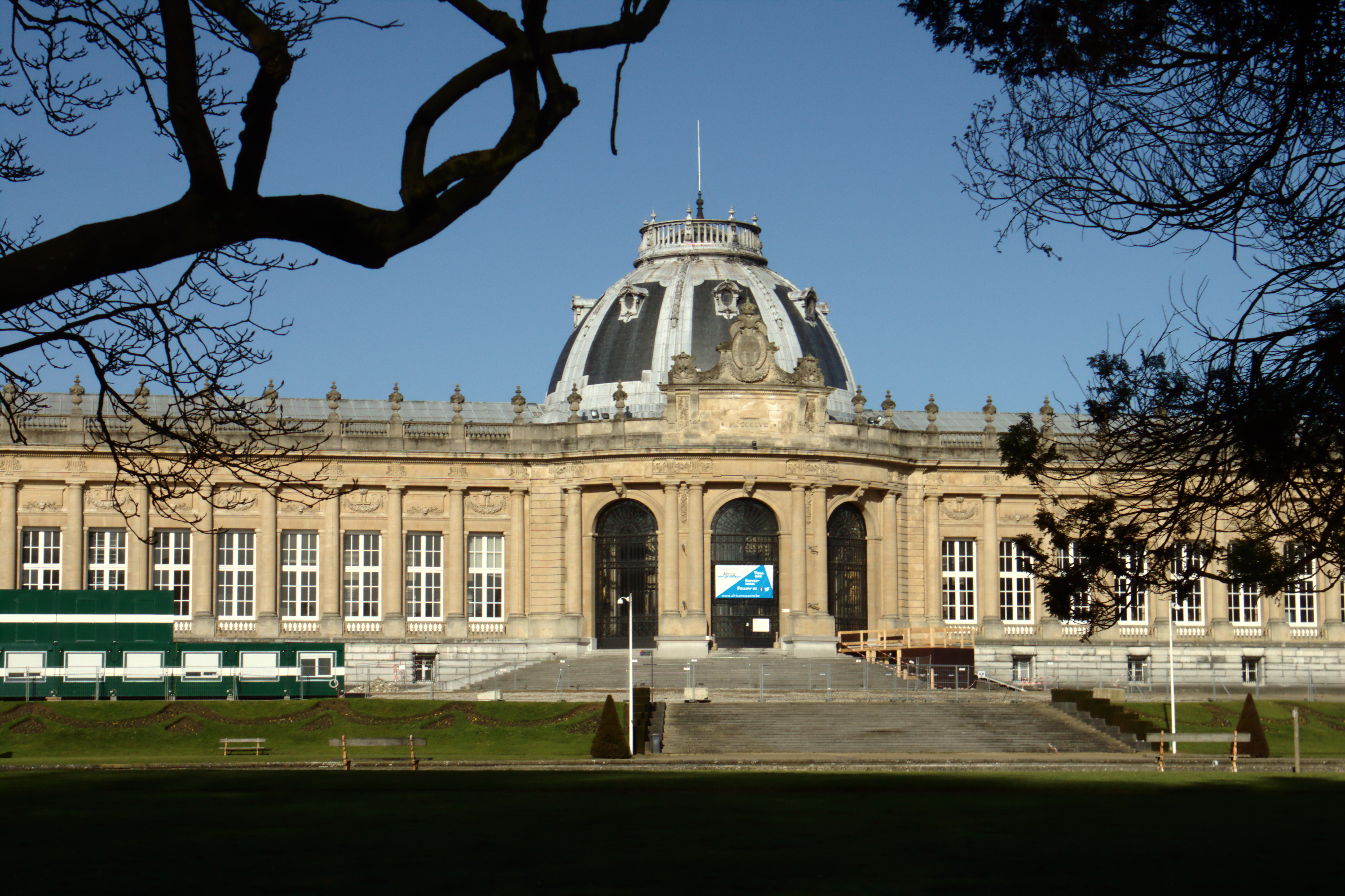 Building of the Royal Museum for Central Africa seen from the Tervuren Park